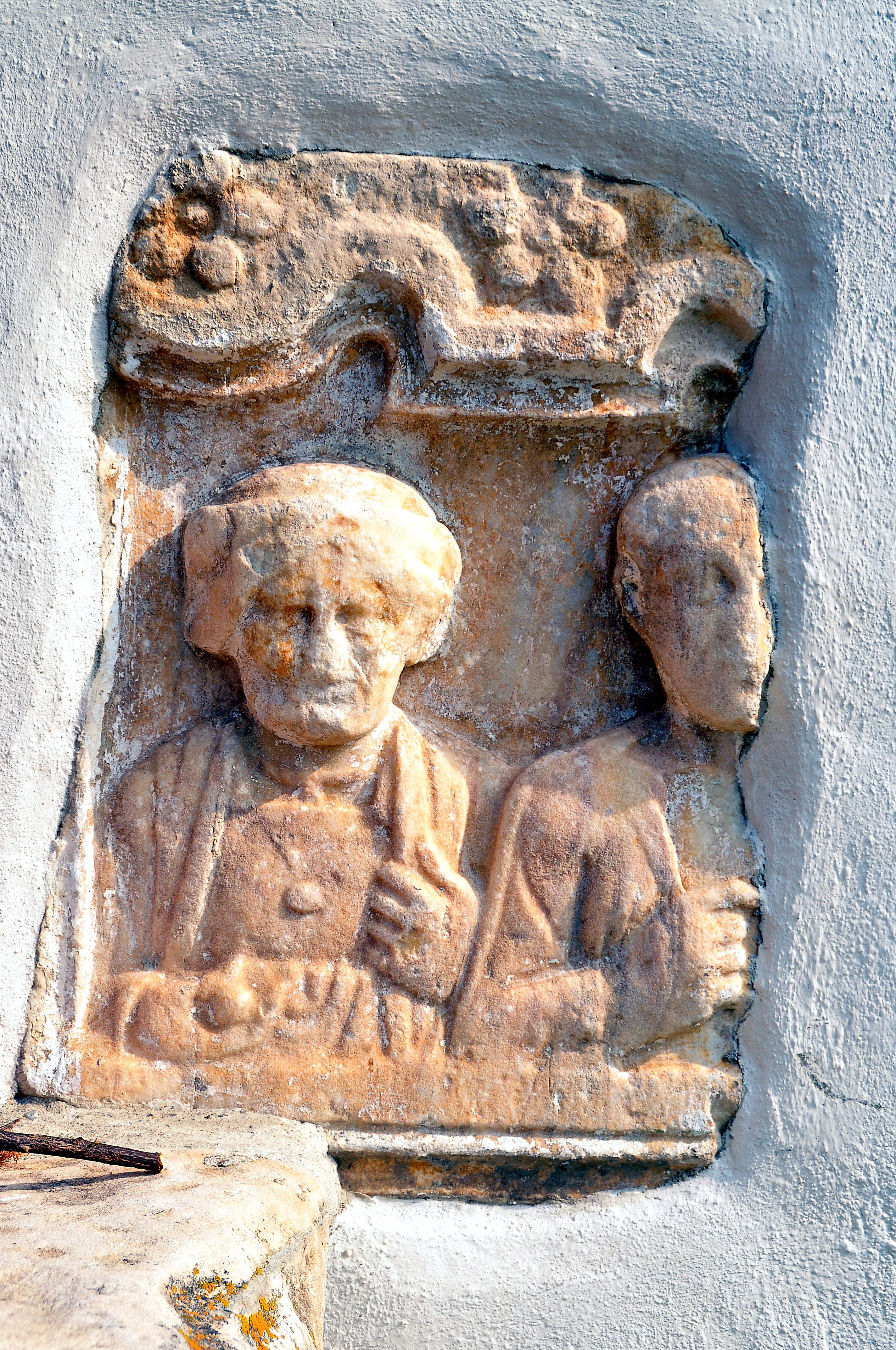 Alcove portrait tomb stela with the busts of a married couple, put into the south wall on the right side of the entrance to the subsidiary church Saint James the Greater in Lendorf, Wölfnitz, Klagenfurt, Carinthia, Austria